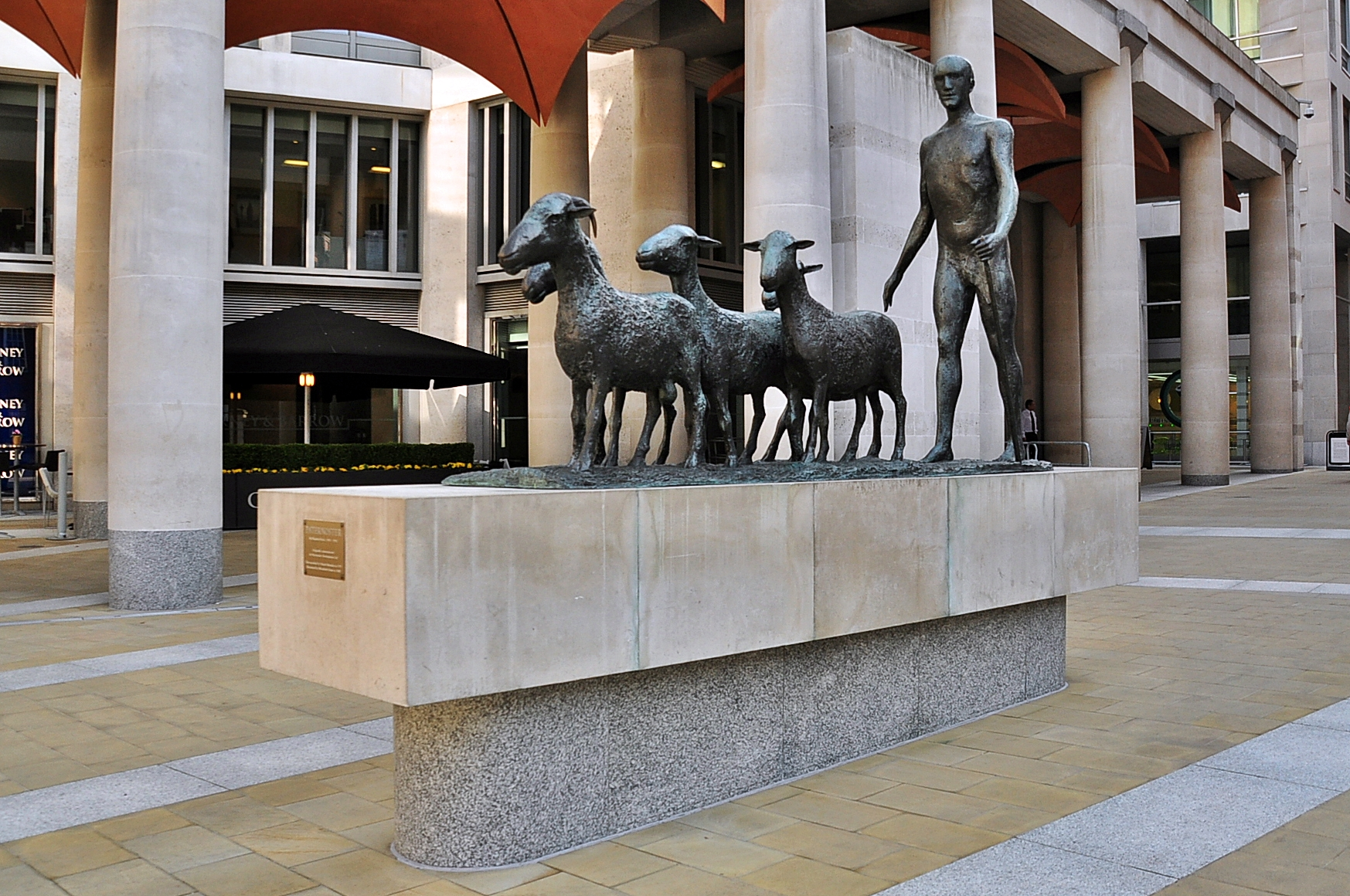 Paternoster Sculpture by Elisabeth Frink located in Paternoster Square, City of London